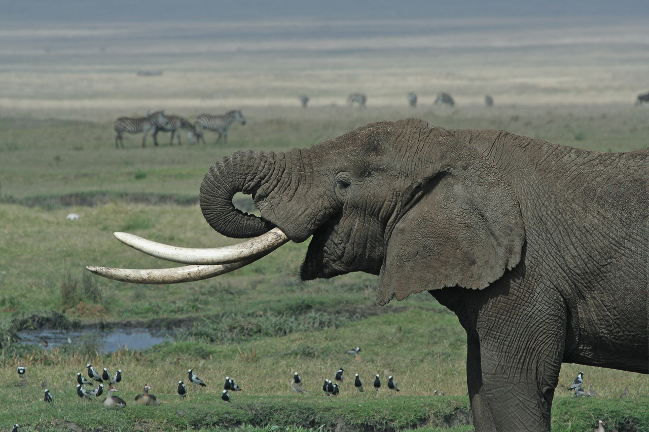 Loxodonta africana in the Ngorongoro crater, Tanzania